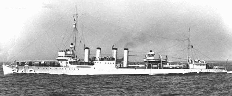 USS Sturtevant (DD-240) underway, date and place unknown. US Navy photo. Official U.S. Navy Photograph taken from